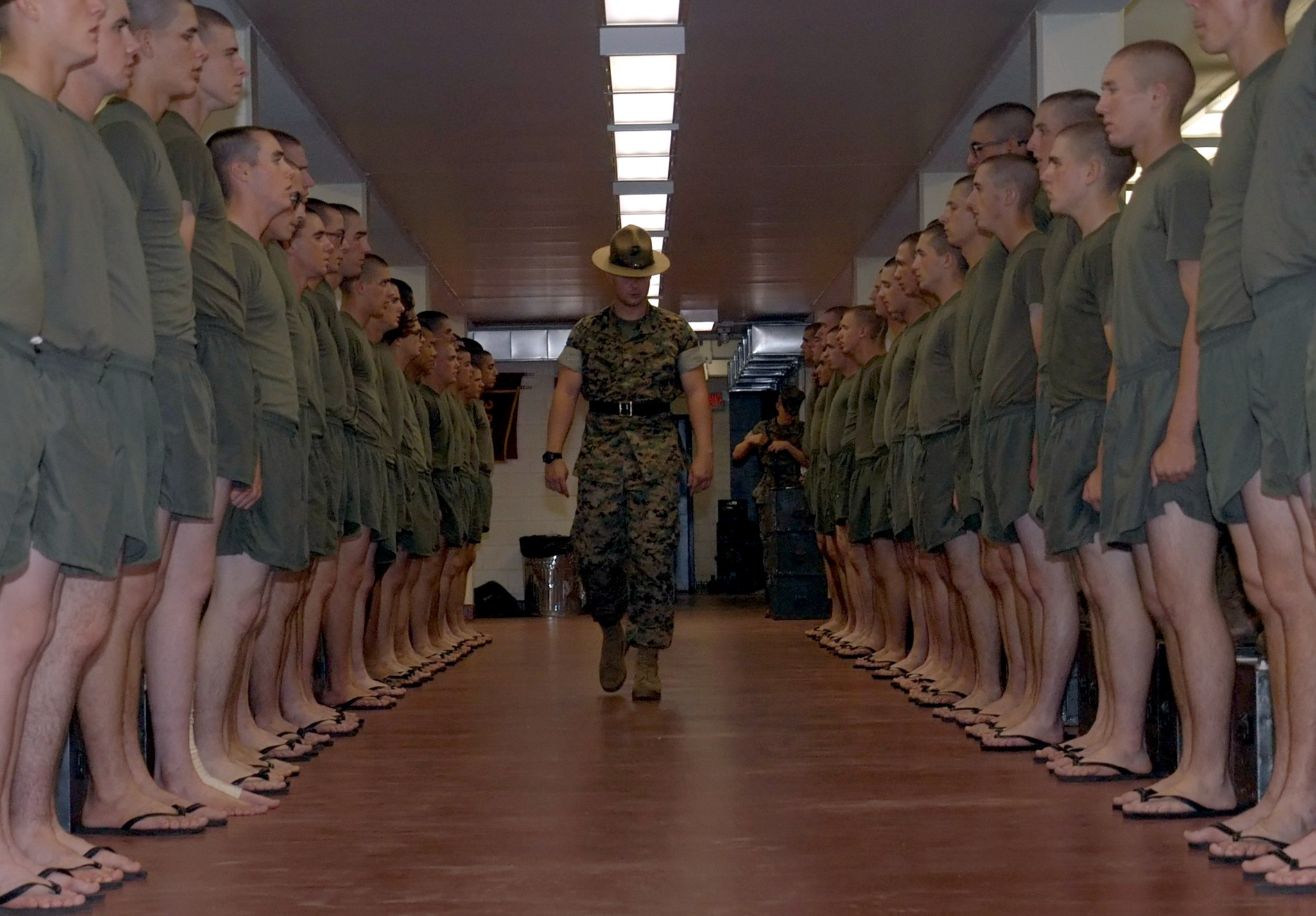 Sergeant Kenneth Morgan, senior drill instructor, Platoon 3078, Lima Co., 3rd Recruit Training Battalion, inspects his squadbay as his recruits stand on line before bed time.Submitting Unit: MCRD Parris Island